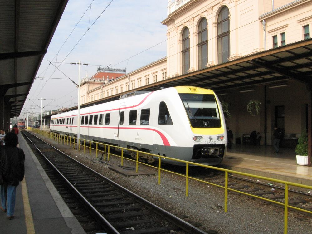 Croatian ICN Tilting Train in a railway station